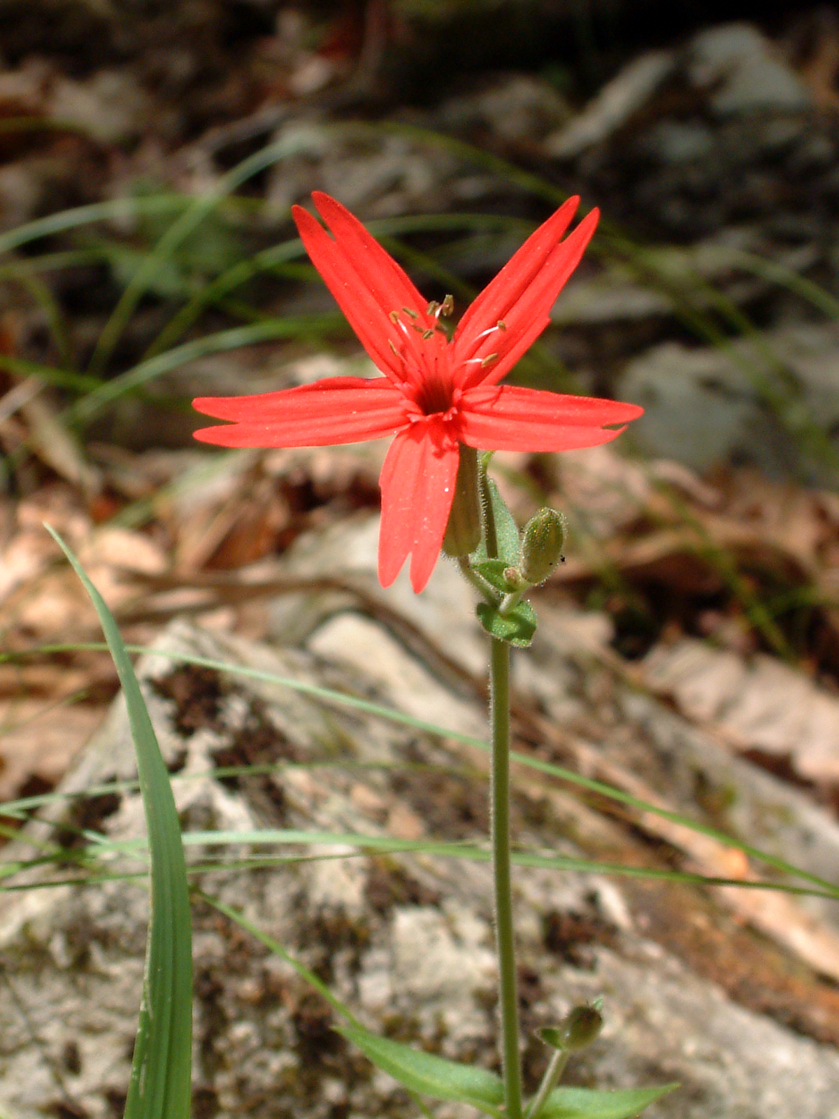 A Fire Pink (Silene virginica) flower, photographed in Mammoth Cave National Park.